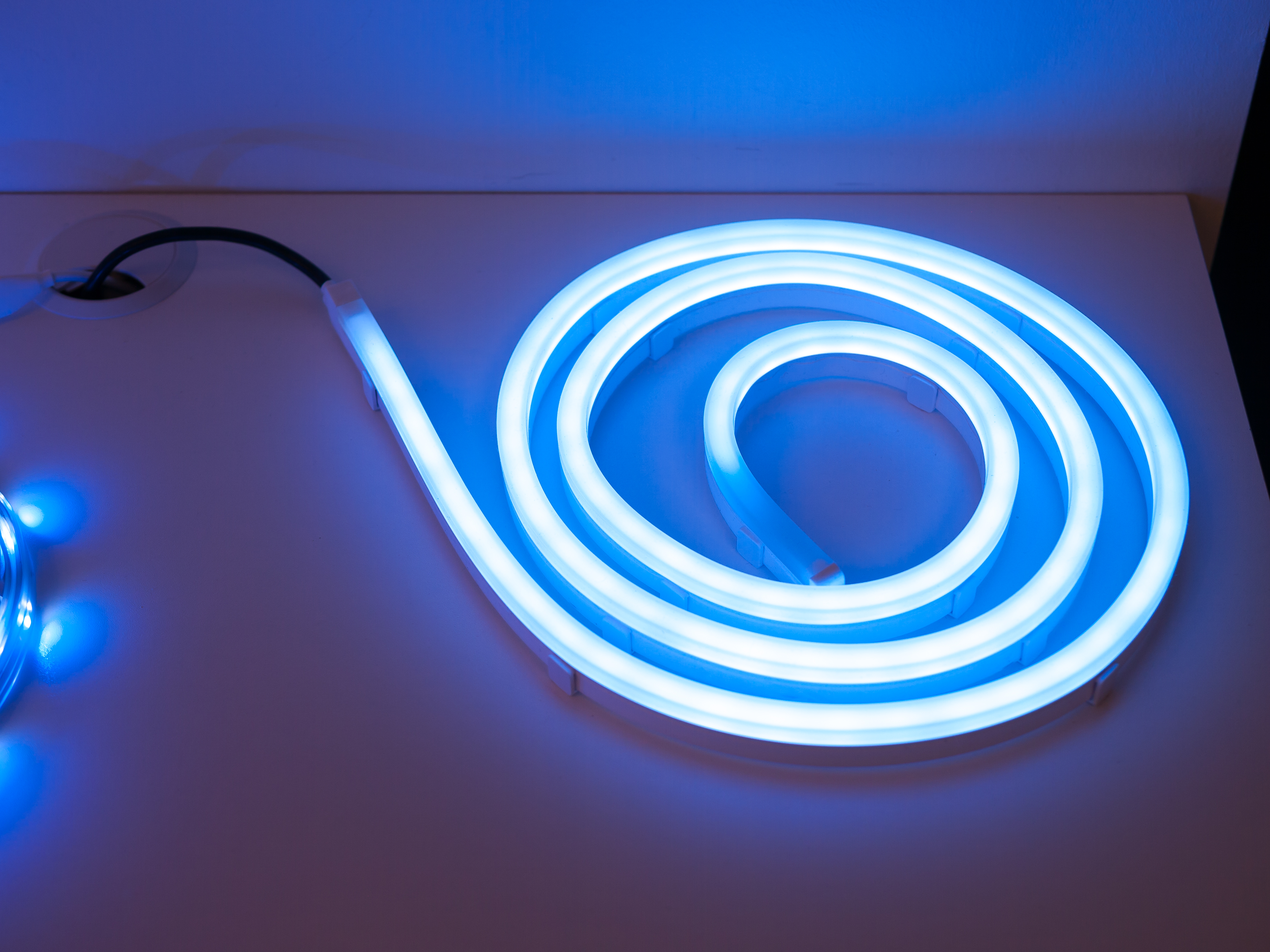 Philips Hue, Internationale Funkausstellung 2018, Berlin